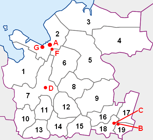 numbered location map of Arkhangelsk region, based on Image:Ru-ark full.svg